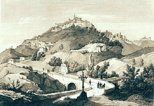 View of Ariano (now Ariano Irpino) within the province of Principato Ulteriore in the Kingdom of the Two Sicilies